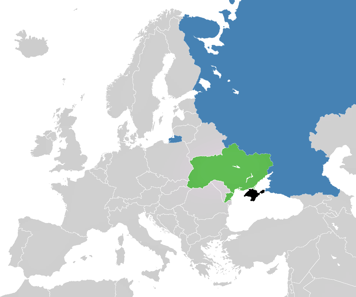 The 2014 Crimean Annexation by Russia. The Ukraine is shown in green, the Crimean peninsula in black, and Russia (with its Kaliningrad Baltic enclave) in purple. The territory of Crimea is disputed between (on the one hand) the Ukraine, and the Russian and Crimean governments (on the other).